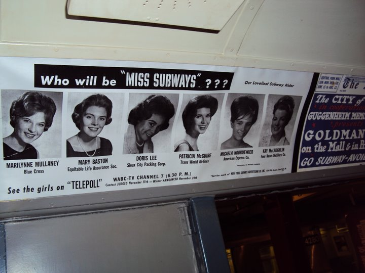 Miss Subways ad (December 2010). Photo taken at NYC Transit Museum.